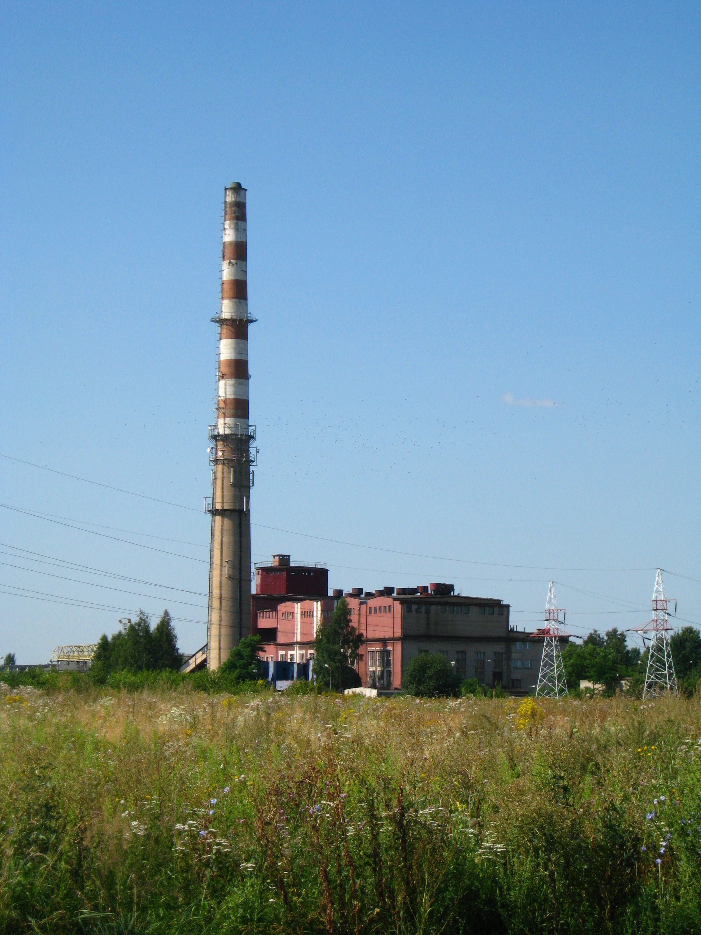 BZPB Fasty SA — chimney of a cogeneration power plant (CHP plants) - Zawady, Białystok (Przędzalniana 8)